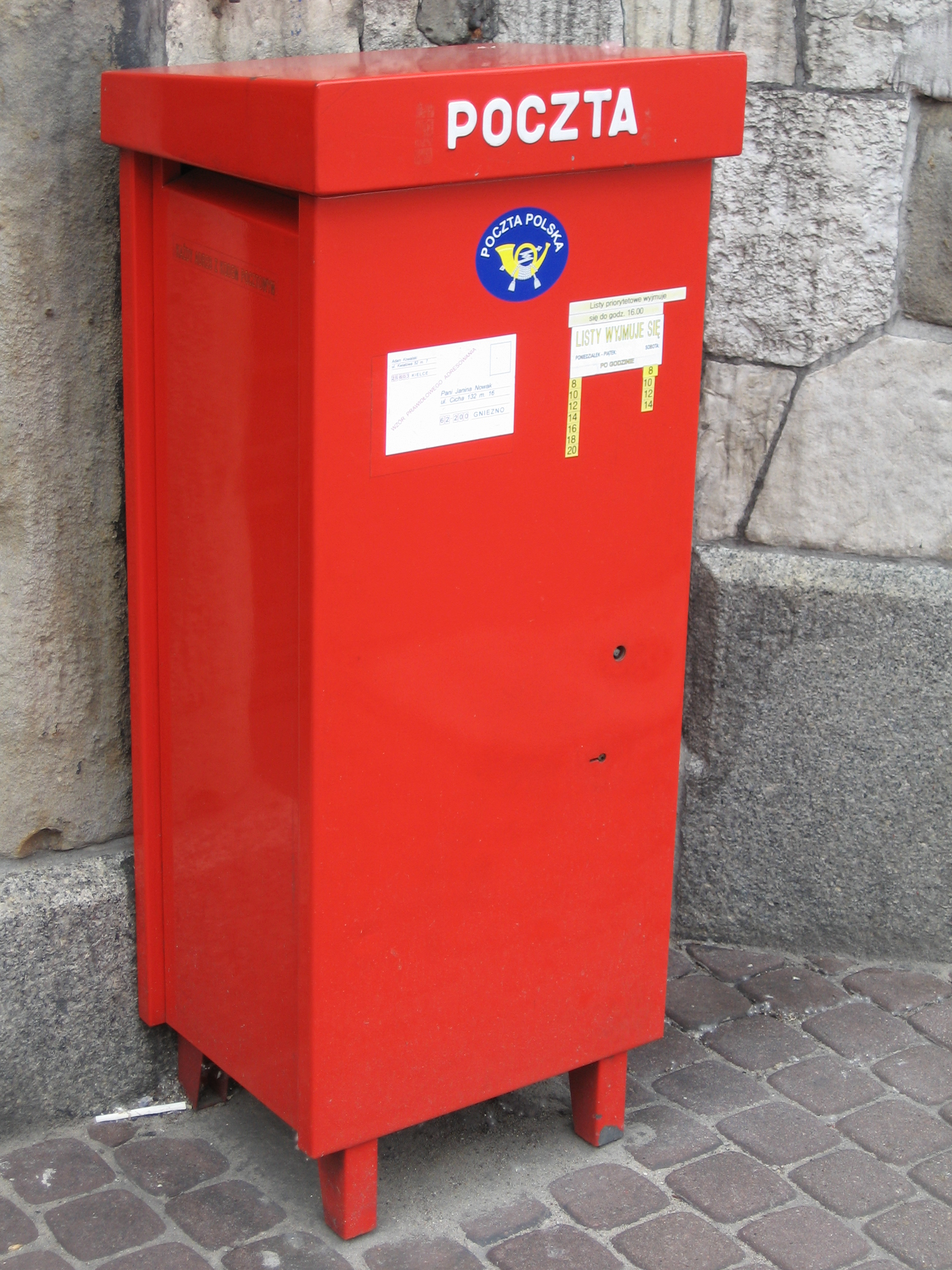 Mailbox in Poland